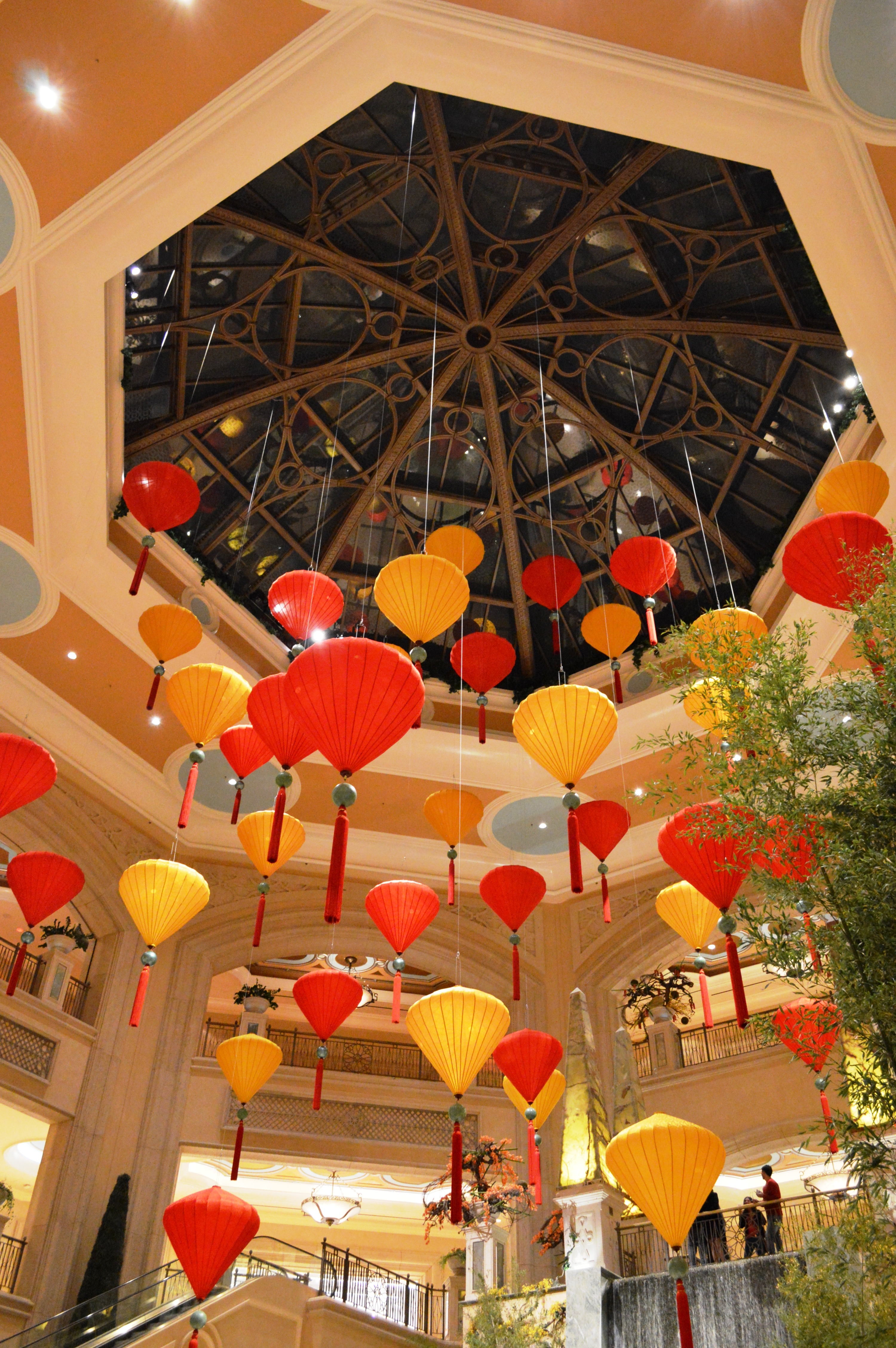 2014 Chinese New Year (Year of the Horse) display at The Palazzo on the Las Vegas Strip, Nevada, U.S.A.